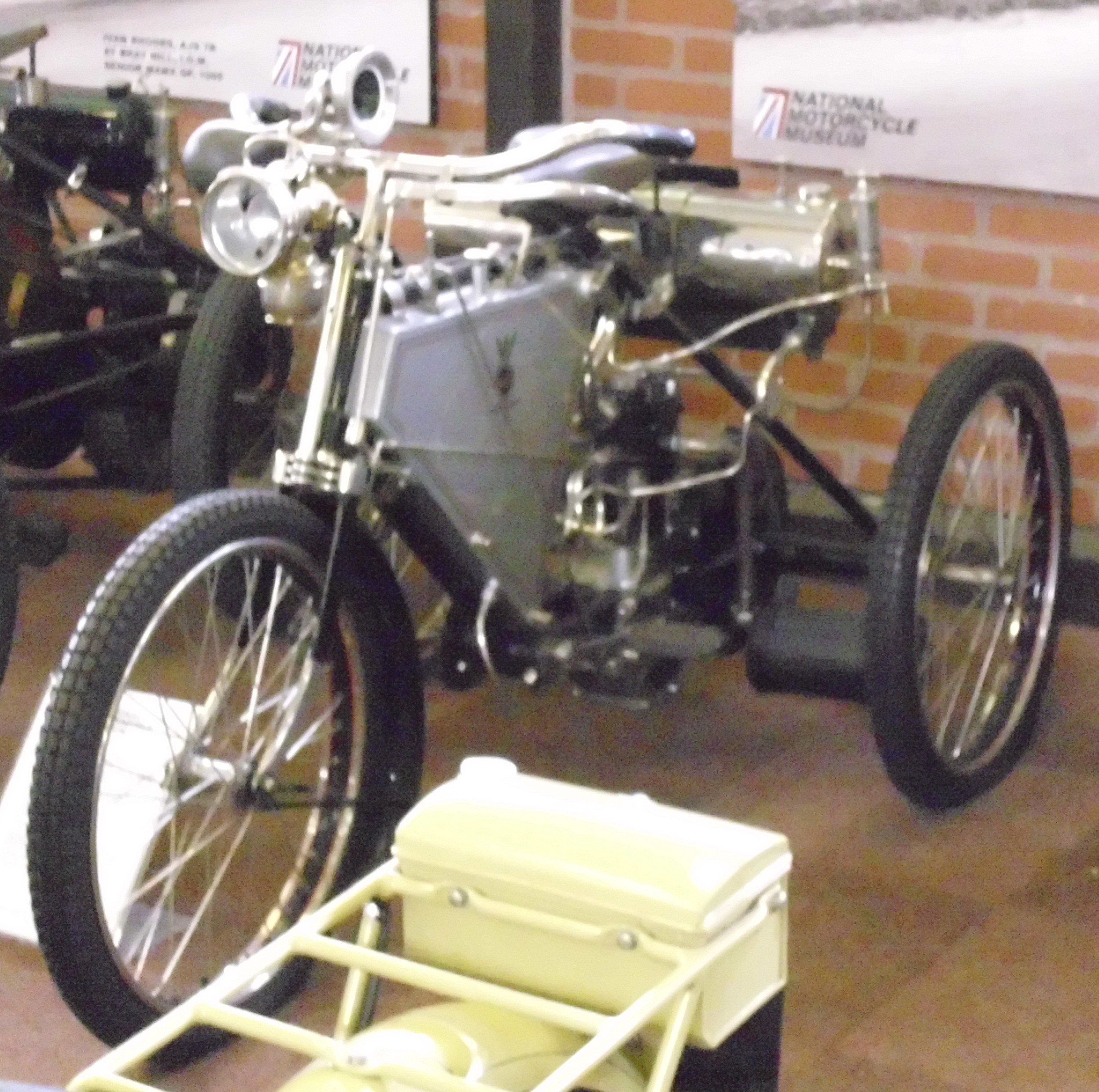 Ariel 2.25 HP Tricycle